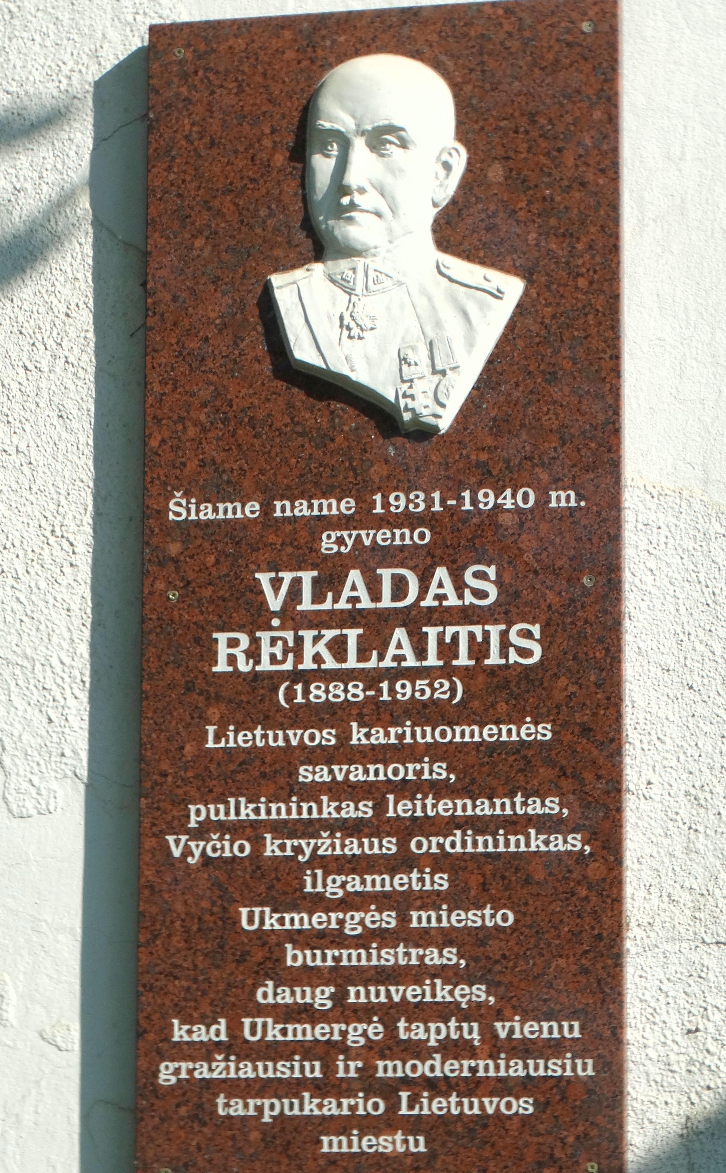 Memorial plaque to Vladas Rėklaitis, Ukmergė, Lithuania